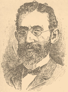 Illustration from Brockhaus and Efron Jewish Encyclopedia (1906—1913). Abraham Berliner.